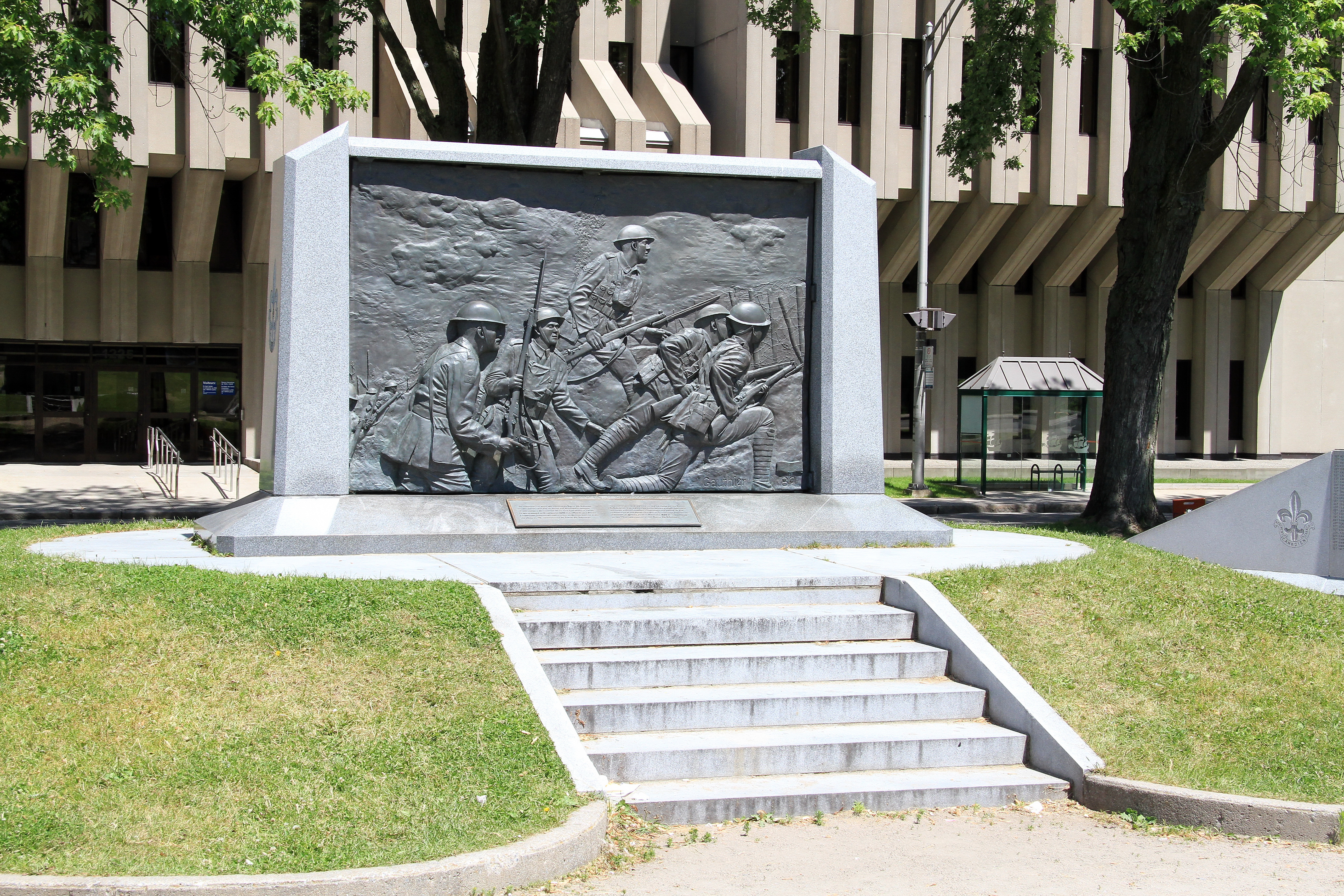 War memorial near the manège militaire in Québec, Quebec, Canada. Artist: Gauthier.